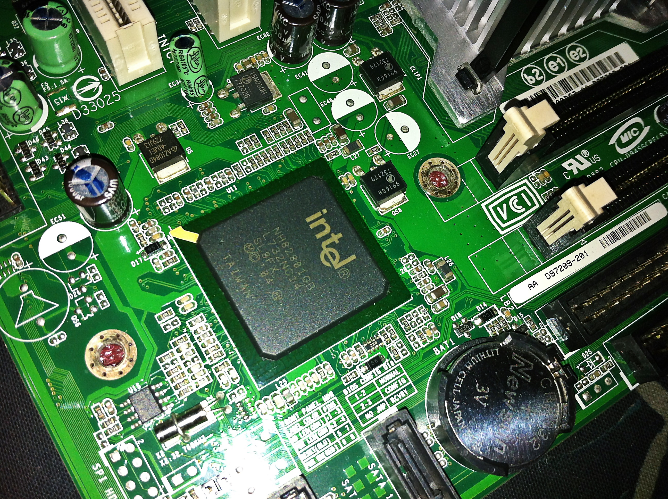 Intel ICH7 Southbridge on Intel D945GCPE Desktop Board